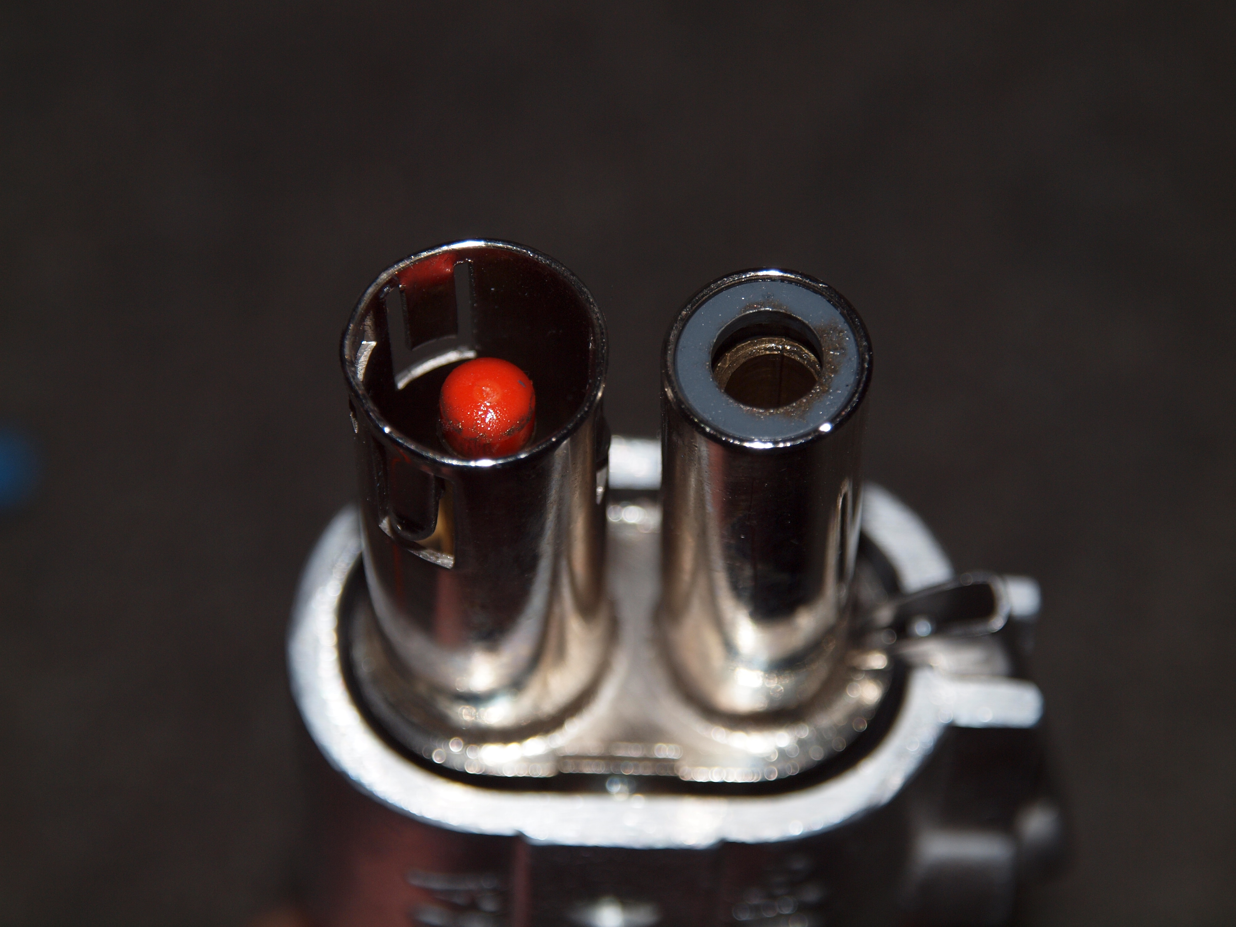 Plug of the Plugsystem called Eberl (german norm DIN 56905)